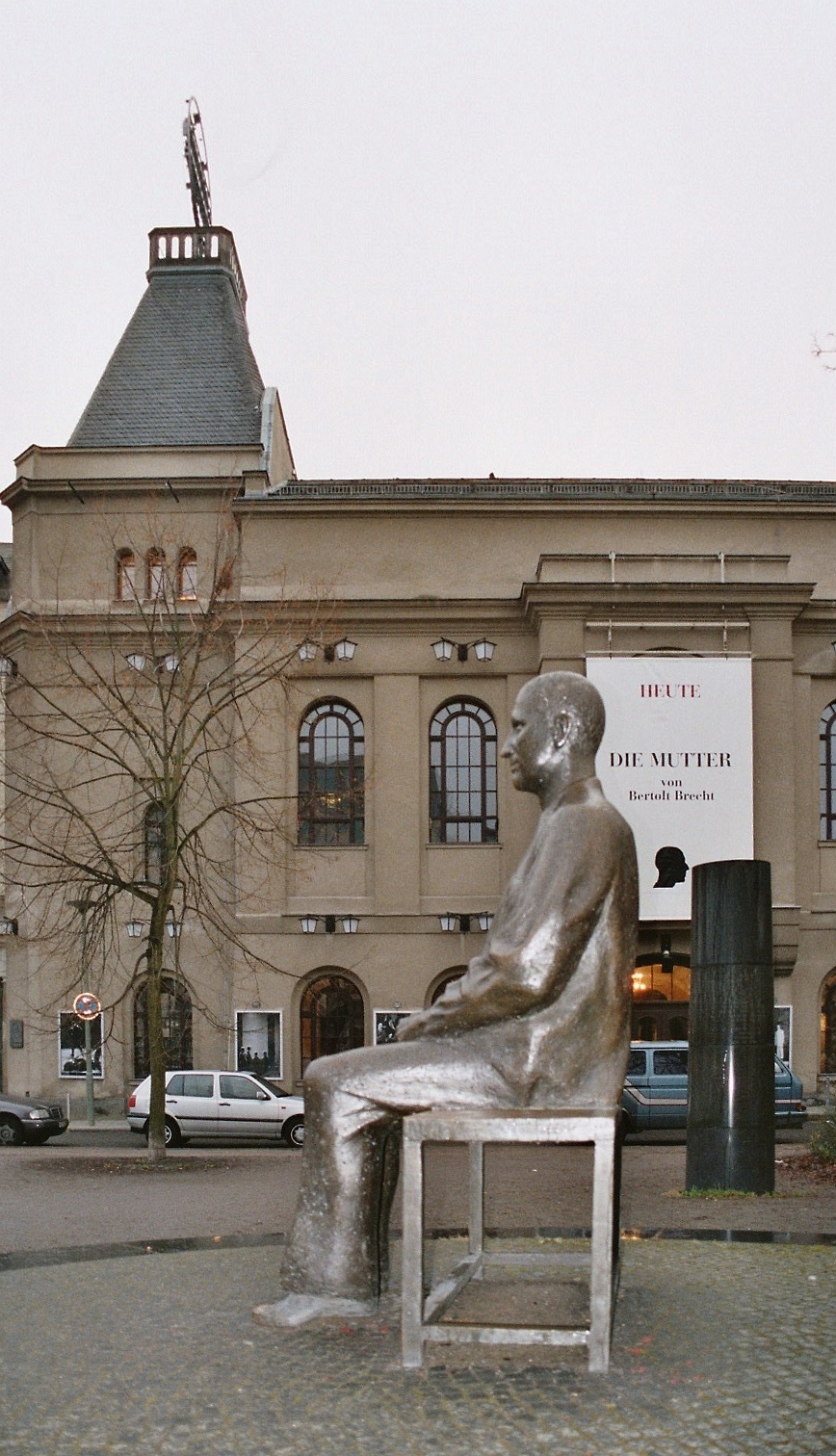 Bertolt Brecht memorial at Bertolt—Brecht—Platz in Berlin, in front of "Theater am Schffbauer Damm"/"Berliner Ensemble"